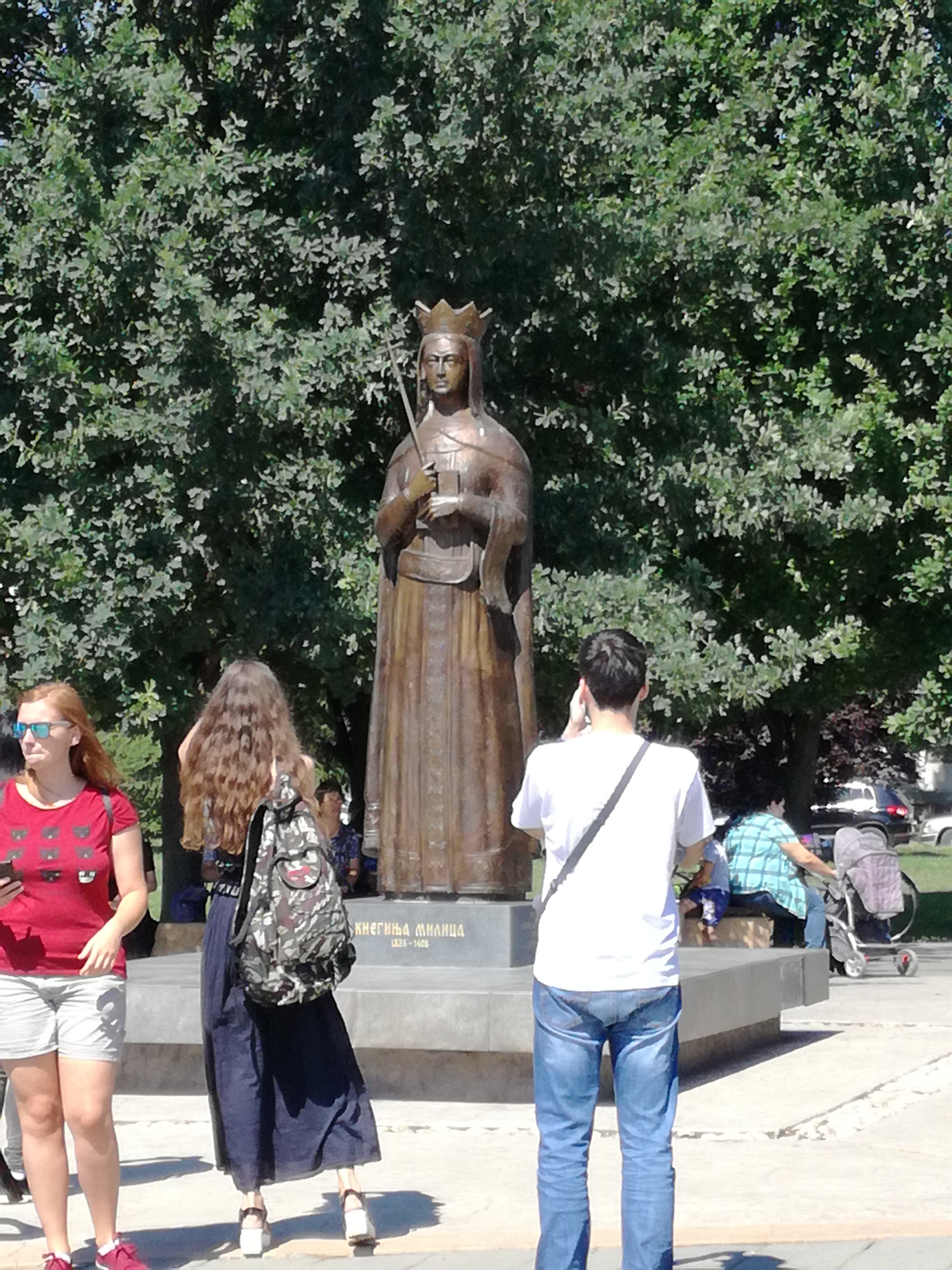 Statua kneginje Milice u Trsteniku.